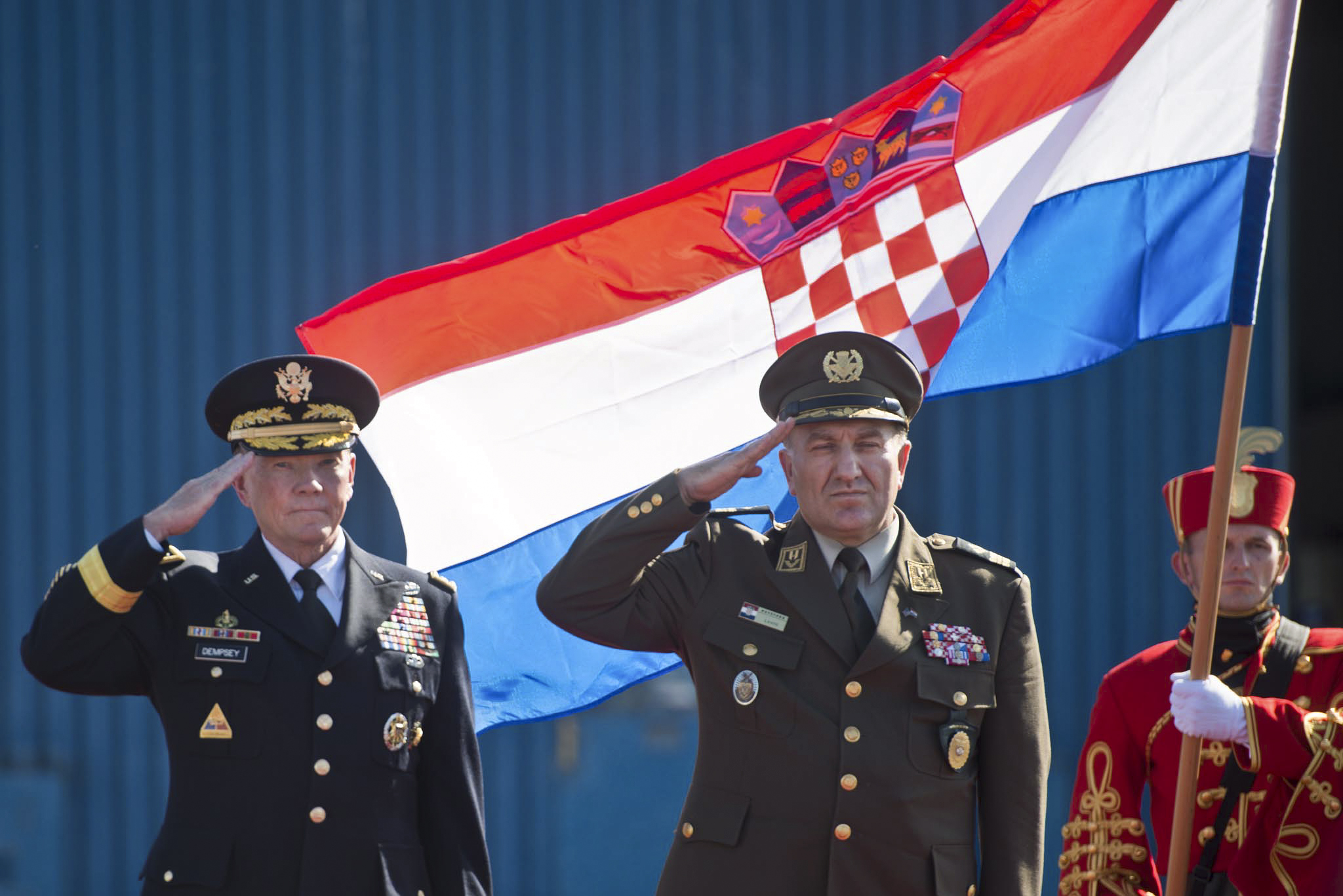 U.S. Army Gen. Martin E. Dempsey, left, chairman of the Joint Chiefs of Staff, and Croatian Gen. Drago Lovric, chief of Croatia's general staff, salute during a ceremony at the Zagreb Airport in Croatia, Sept. 21, 2014